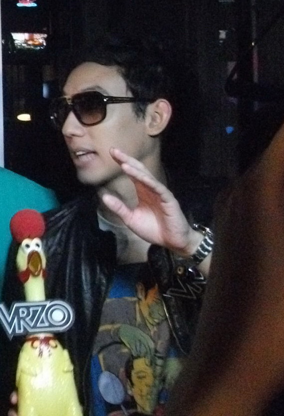 Surabot Leekpai at VERY TV 1st Anniveresary